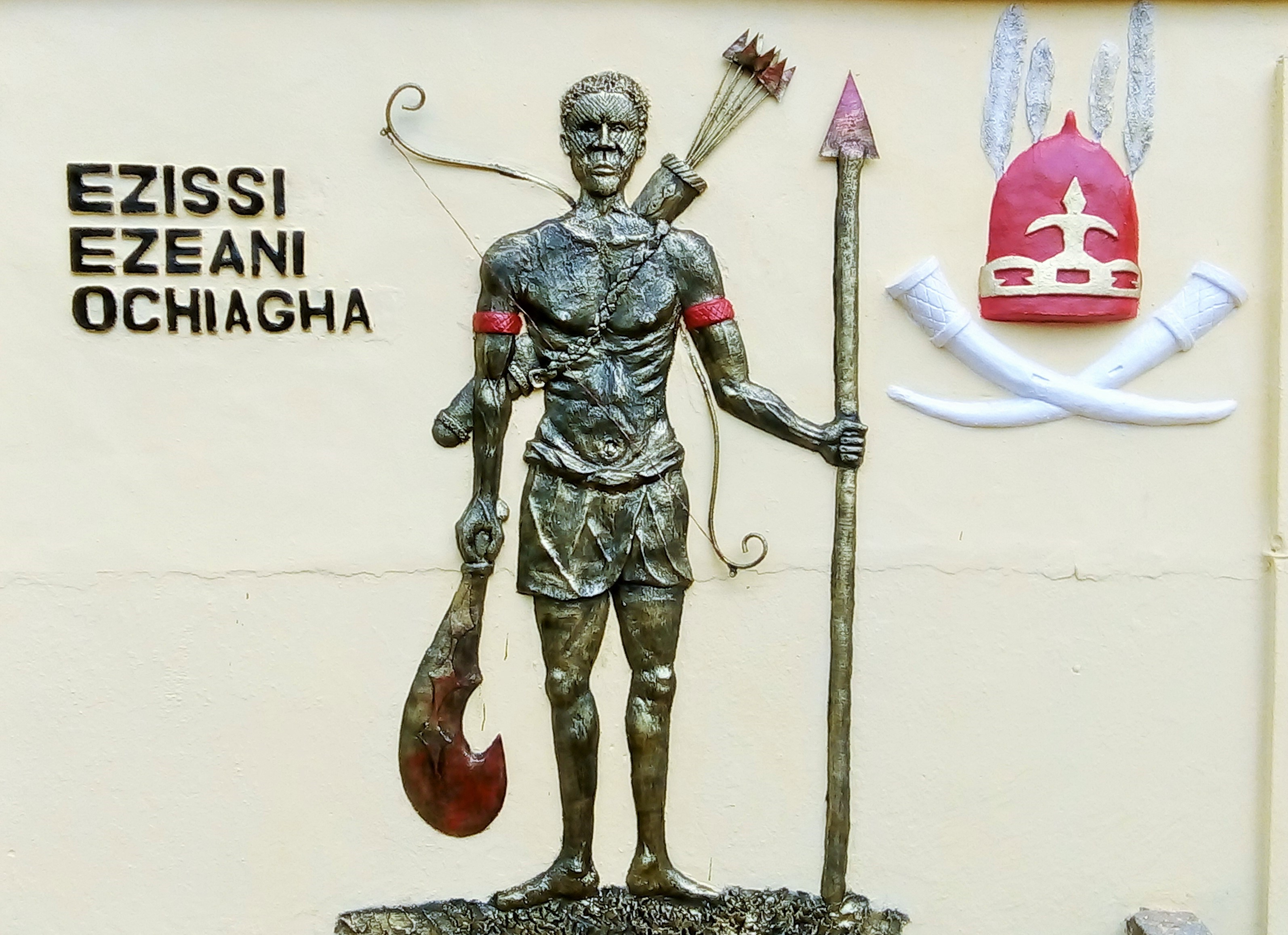 Statue of an ancient Igbo warrior found in Umunocha village, Awka-Etiti, Anambra State, Nigeria